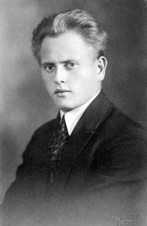 Image of Estonian writer August Jakobson (1904-1963).